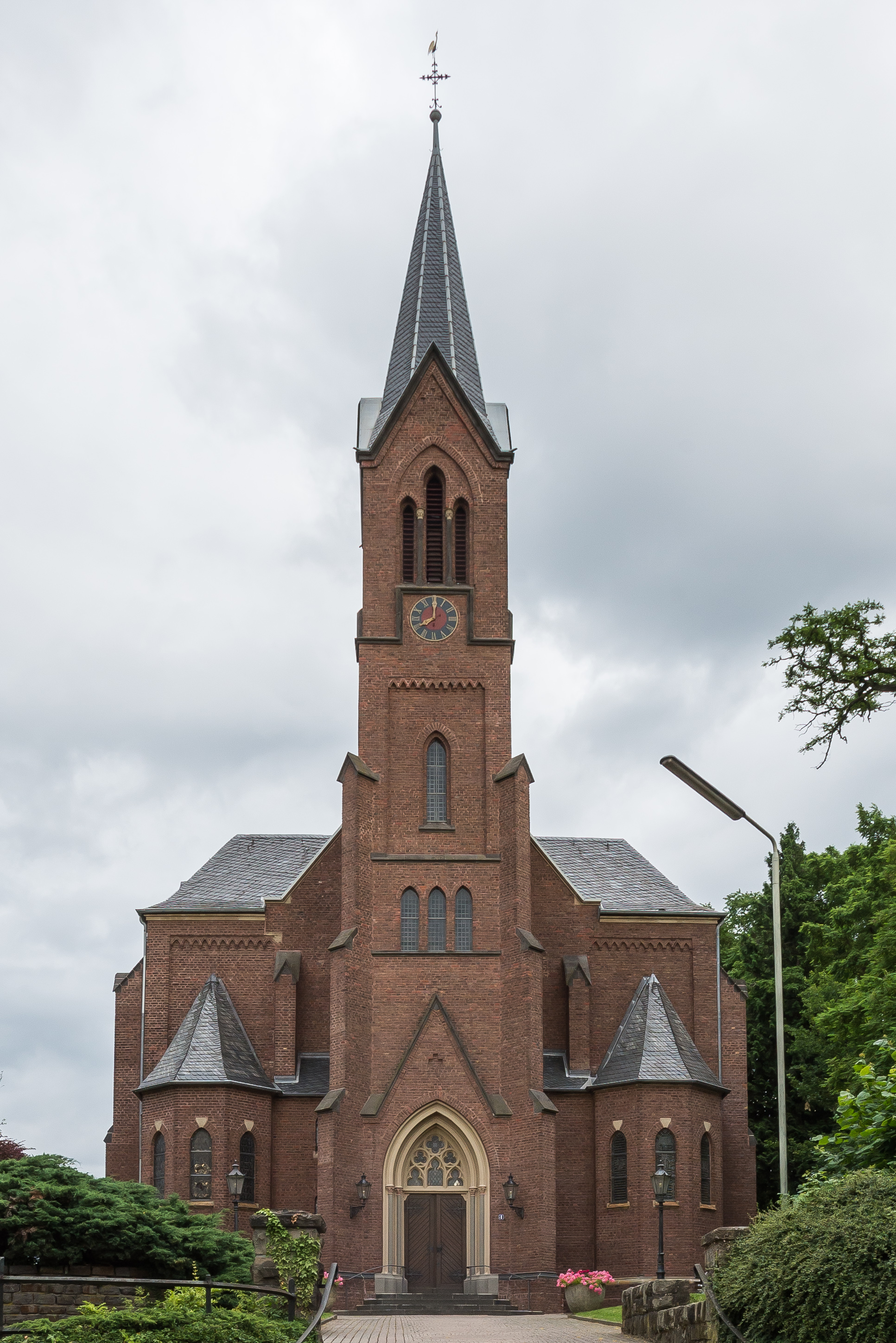 Church of Saint Servatius in Bornheim (North Rhine-Westphalia, Germany), built 1864-1866 (planed by P. Thomann), enlarged 1897-1898 to a hall-church